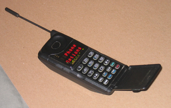 Photo depicts a 1994 Motorola MicroTAC Elite VIP. Elites featured a built in phone book, answering machine, pager, and were the first to incorporate the VibraCall feature. Advanced features were possible through the introduction of the NAMPS network in 1993.